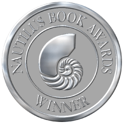 Nautilus Book Award emblem